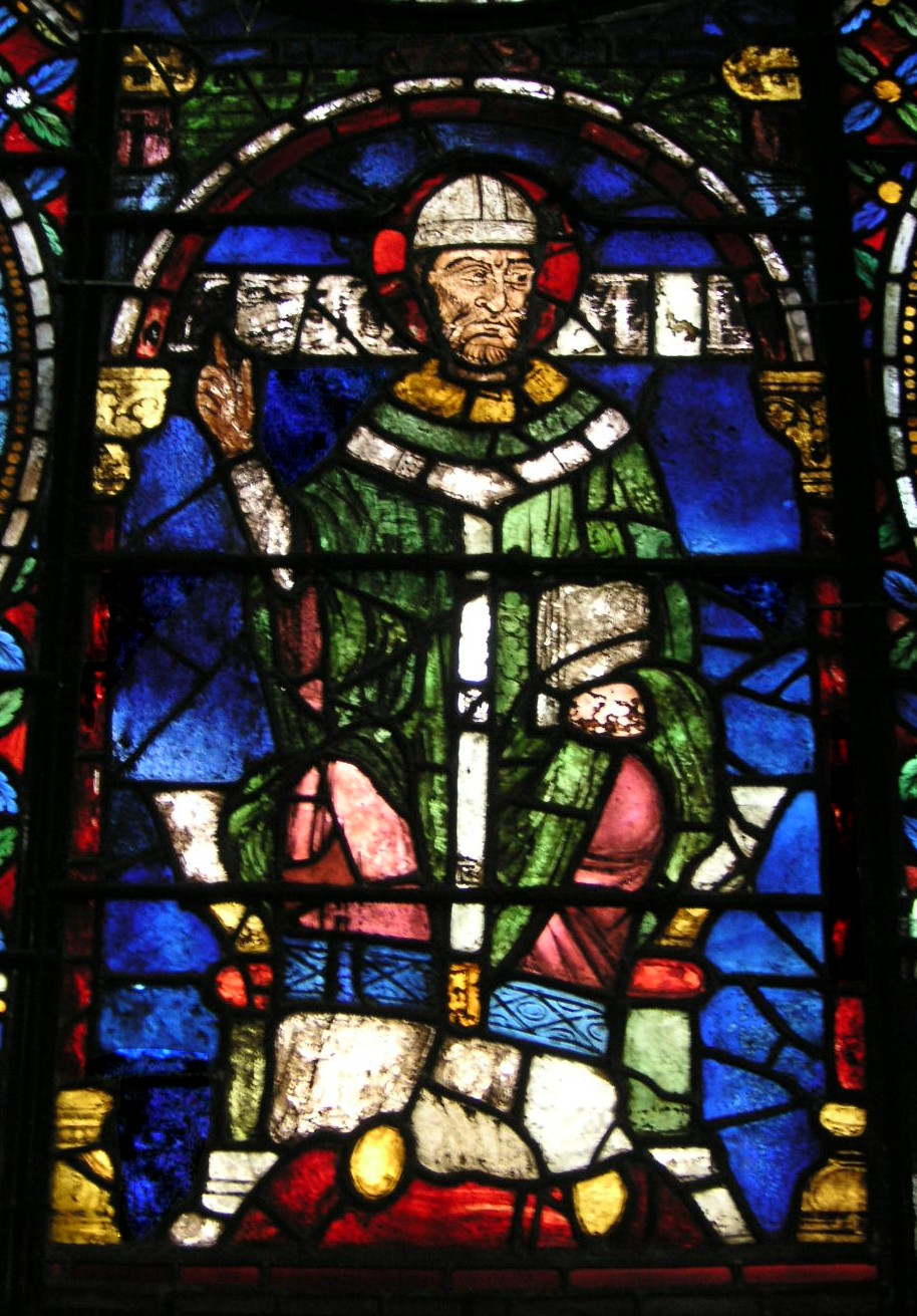 Canterbury Cathedral, panel from window, detail St Thomas a Becket